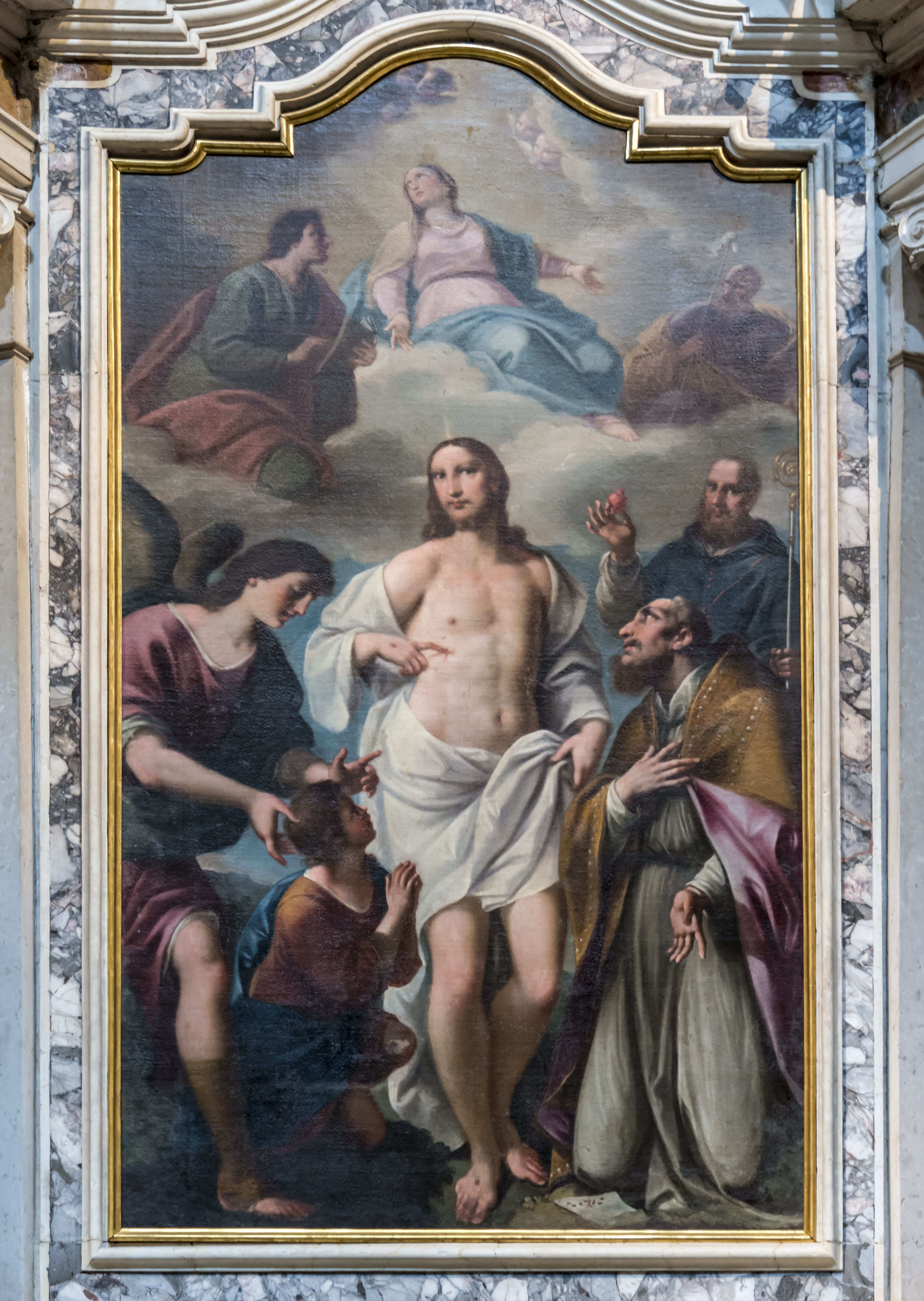 Cathedrale Santa Maria Matricolare. Abbazia-Lazzari chapel. Altarpiece of the Redeemer between Tobias, the Angel and the Saints Liborio and Francis de Sales; the painting is the work of Sante Prunati 1720.